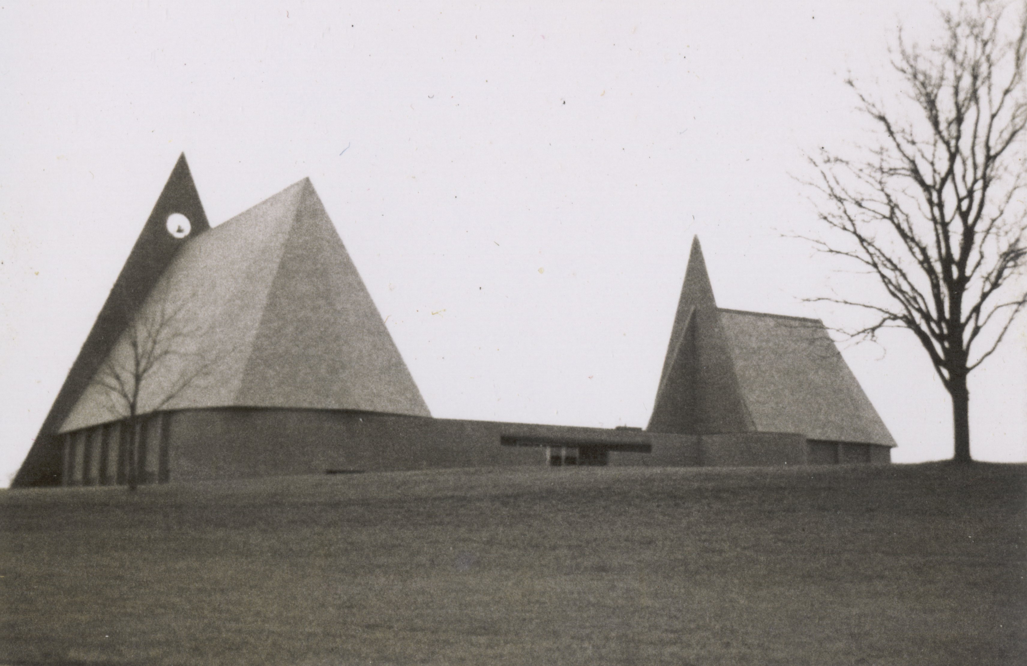 First Baptist Church, Columbus, Indiana (originally Fairlawn Baptist Church) - as built in mid-1960's